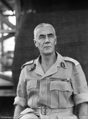 Portrait of Lieutenant General Vernon Sturdee, an Australian general of the Second World War